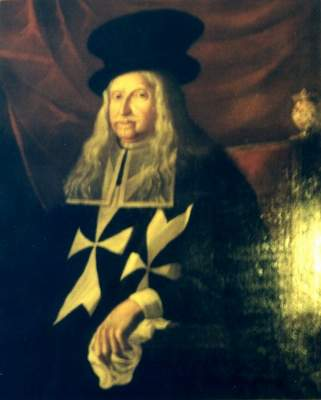 Annet de Clermont-Gessant (d. 1660)